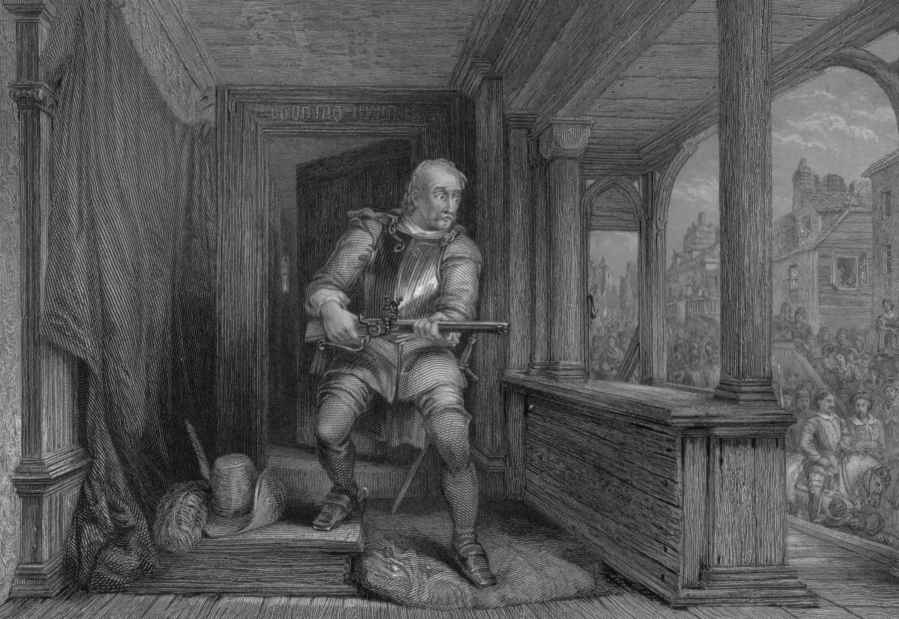 James Hamilton of Bothwellhaugh in the act of assassinating The Earl of Moray at Linlithgow.